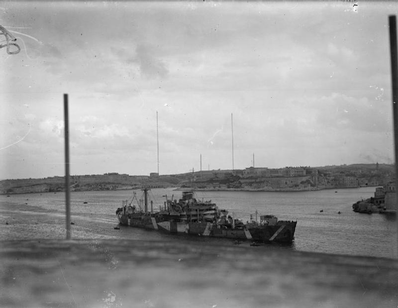 The Royal Navy during the Second World War SS BRECONSHIRE lying in Grand Harbour, Malta.